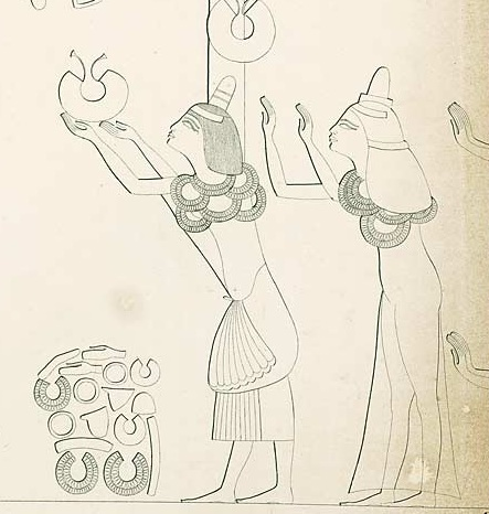 Ay and Tey in tomb 25 in Amarna receiving rewards from Akhenaten and Nefertiti.